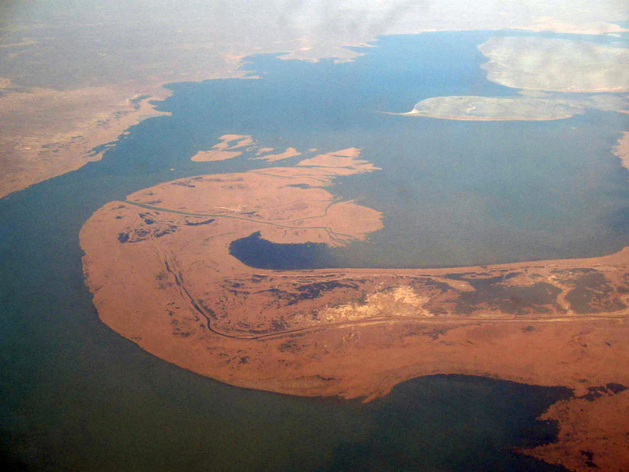 The center of Balkhash Lake as seen from an airplane.